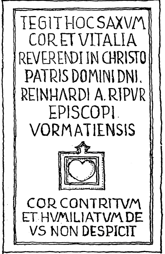 Herzepitaph Bischof Reinhard von Rüppurr, in St. Nikolaus Rüppurr